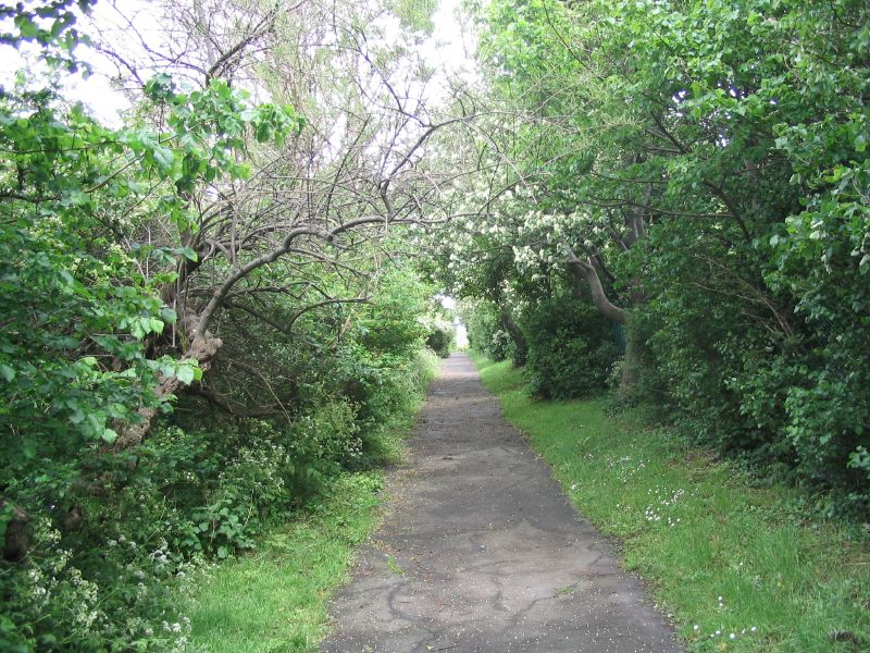 One of the more accessible parts of the Hilsea Line path, Portsmouth, England